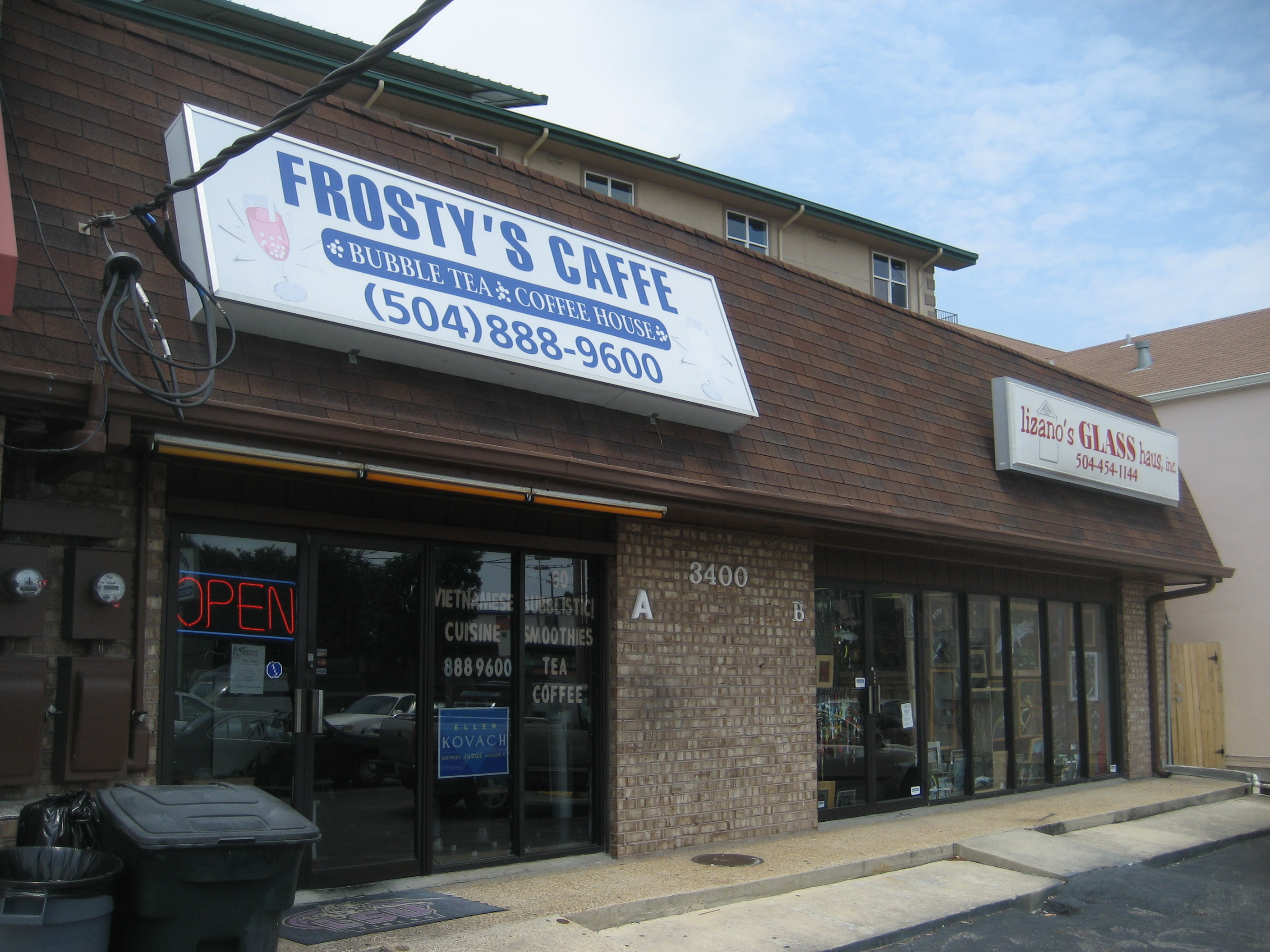 Metairie, Louisiana. Bubble tea cafe, also sells Vietnamese food.